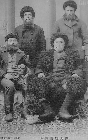 Russian people in Karafuto